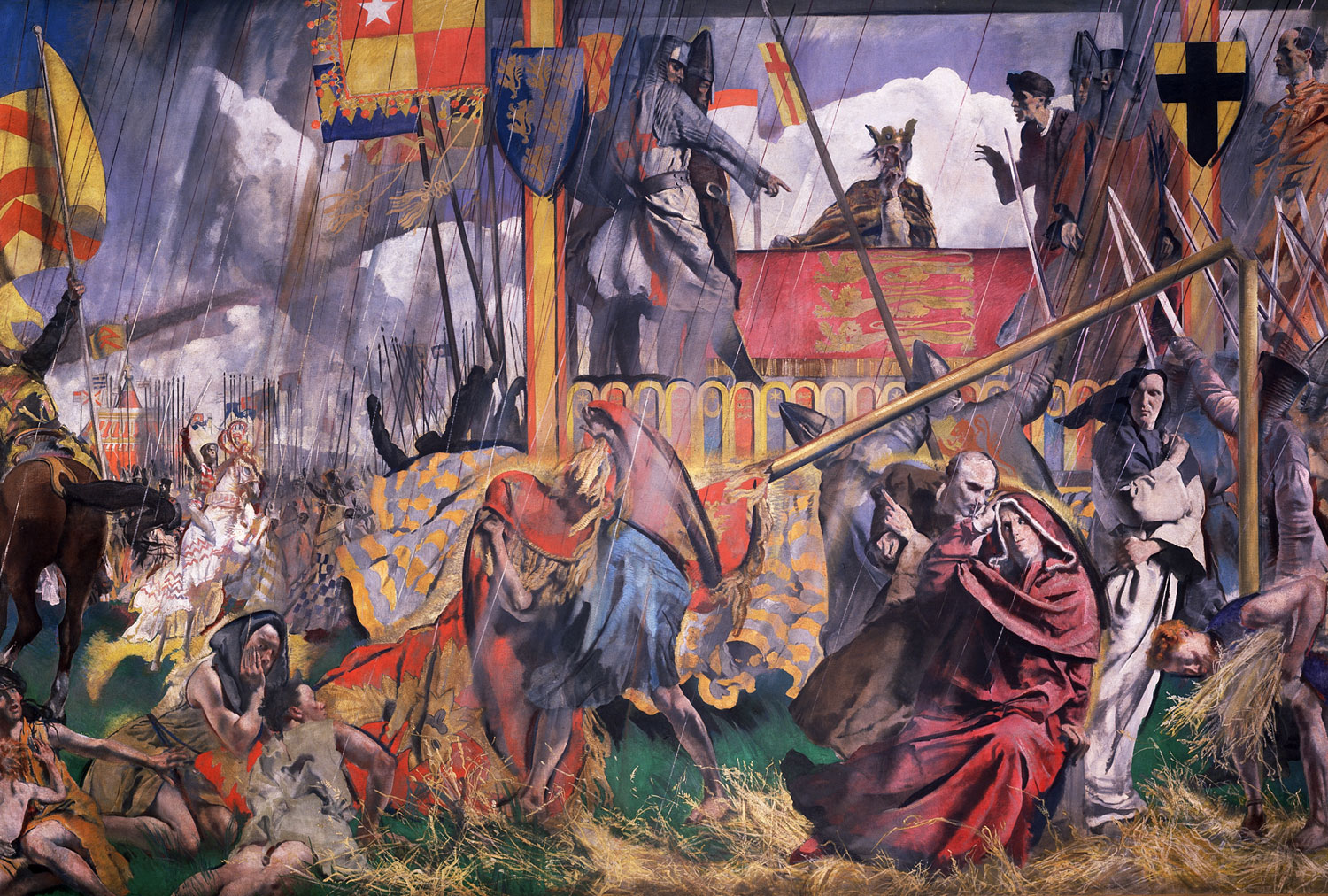 Charles Sims ‘Pictures of English history, from the earliest times to the present period’. King John giving his assent to Magna Carta in 1215. Painted between 1925 and 1927, WOA 2602 Aretist died more than 70 years ago and the original in in the Palace of Westminster Collection